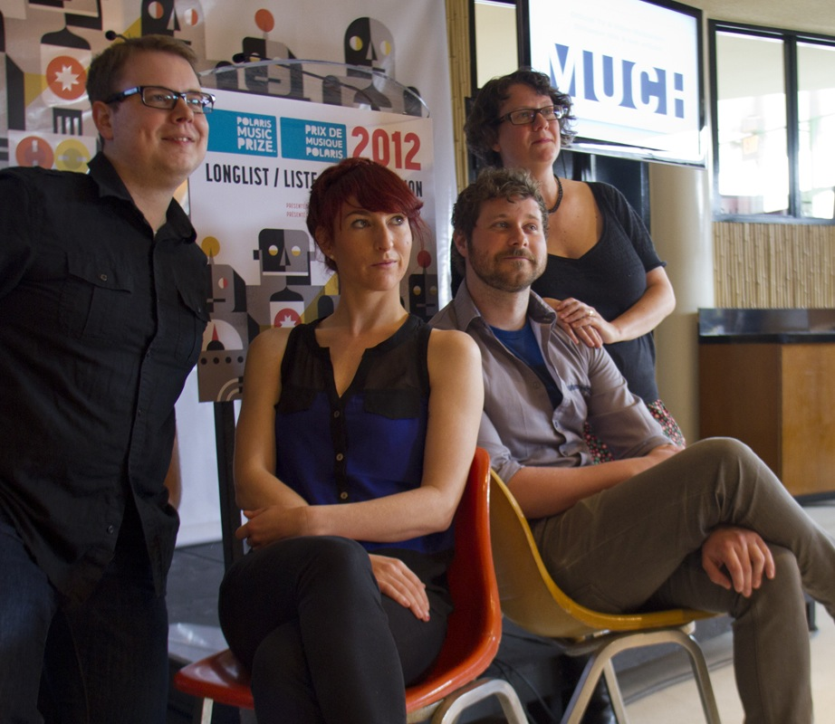 2012 Polaris Music Prize long list presenters, from left to right: Francois Marchand (Vancouver Sun), Hannah Georgas, Dan Mangan and Veda Hille.